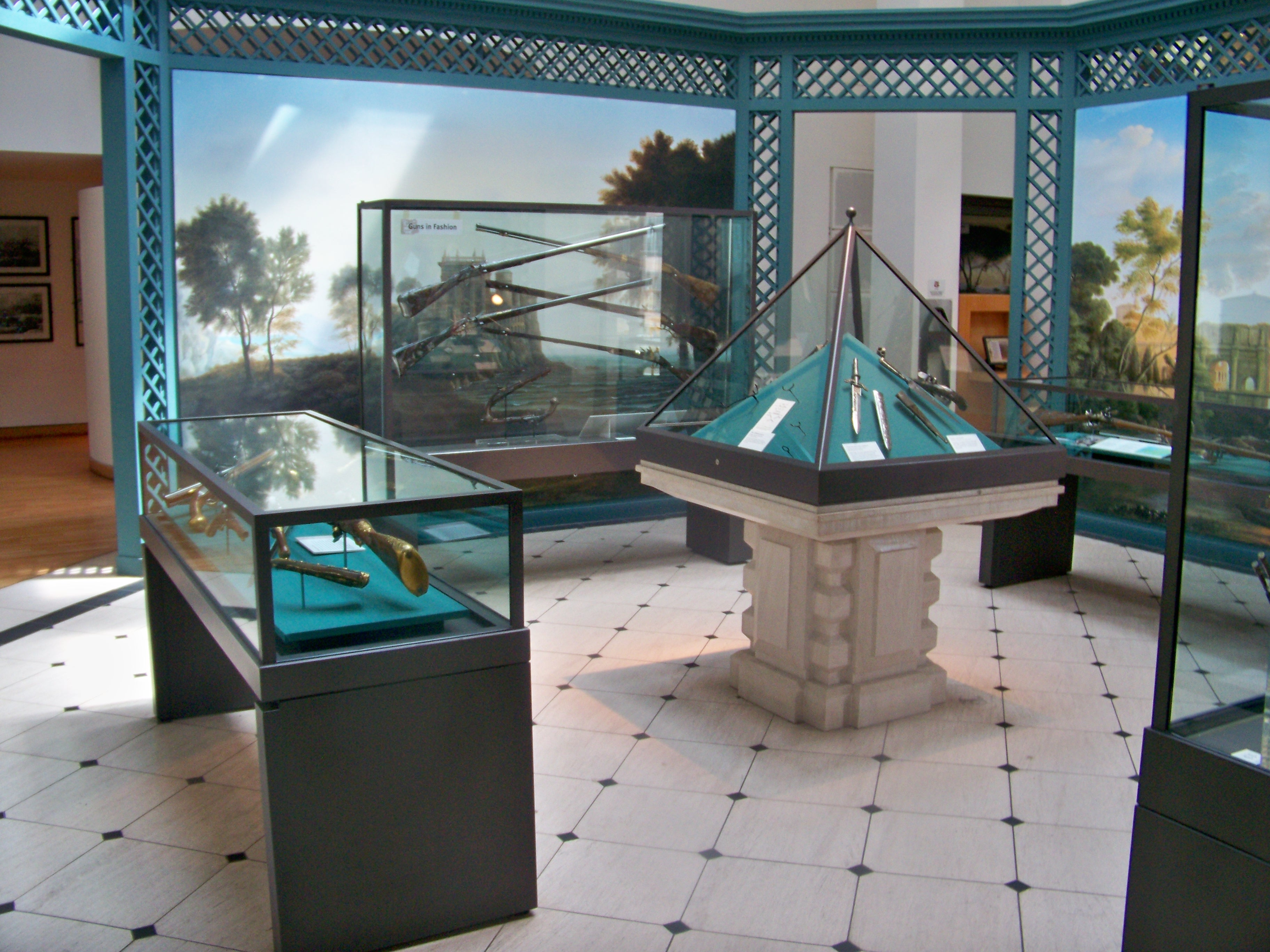 Assorted weaponry on display at the Royal Armouries in Leeds, West Yorkshire. Taken on the afternoon of Thursday the 24th of June 2010.